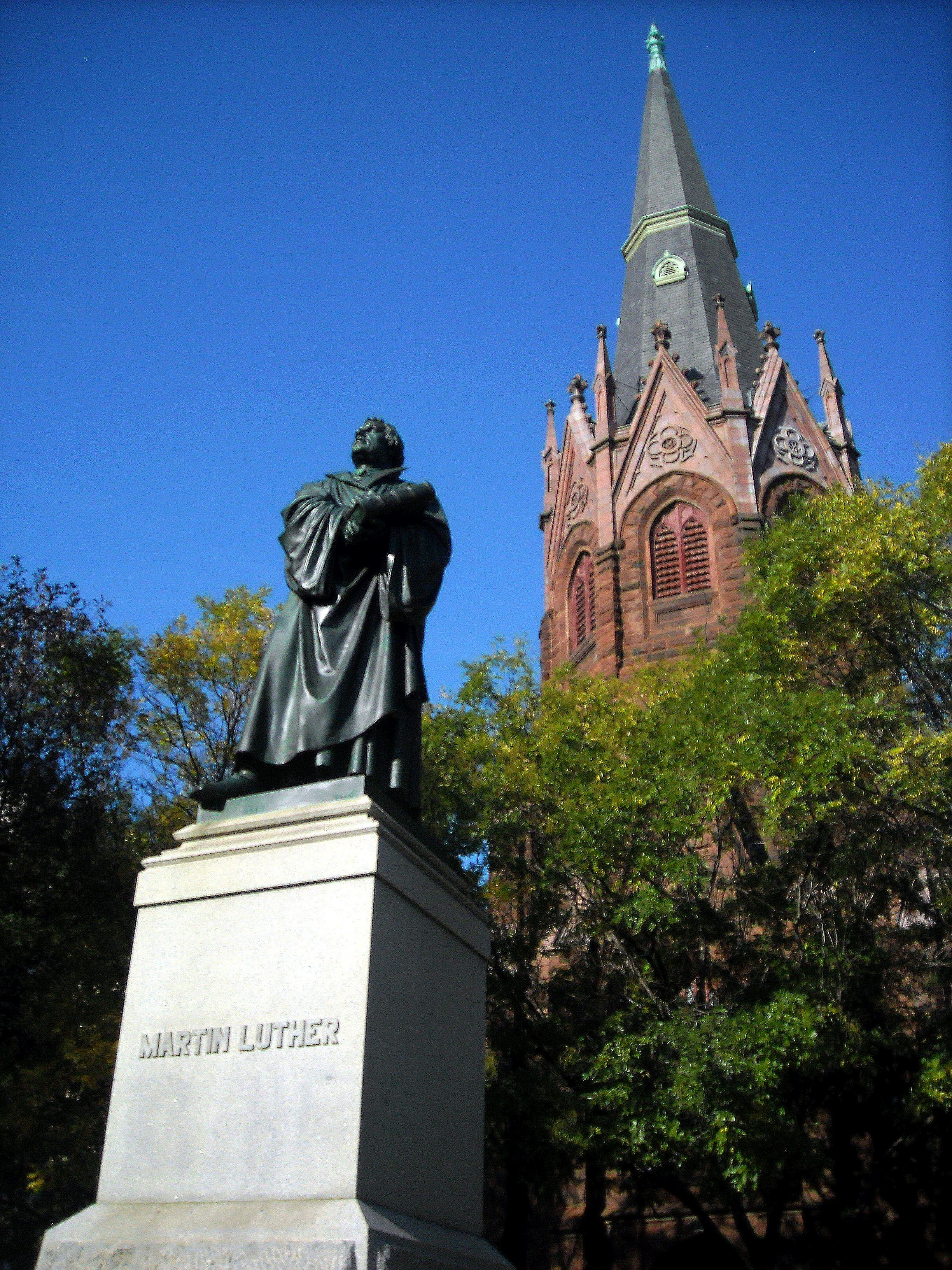 A bronze statue of Martin Luther and the octagonal tower of Luther Place Memorial Church, located on the north side of Thomas Circle, at 1226 Vermont Avenue, N.W., in the Logan Circle neighborhood of Washington, D.C. Built 1870–1873, the Gothic Revival church was designed by architect Judson York, whose design was later modified by architects John C. Harkness and Henry S. Davis. Originally known as the Memorial Evangelical Lutheran Church of Washington, D.C., the church was renamed after a replica of Ernst Friedrich August Rietschel's Lutherdenkmal (Luther Monument) in Worms, Germany, was erected on the site in 1884. Luther Place Memorial Church was listed on the National Register of Historic Places on July 16, 1973. The church and statue are contributing properties to the Fourteenth Street Historic District.